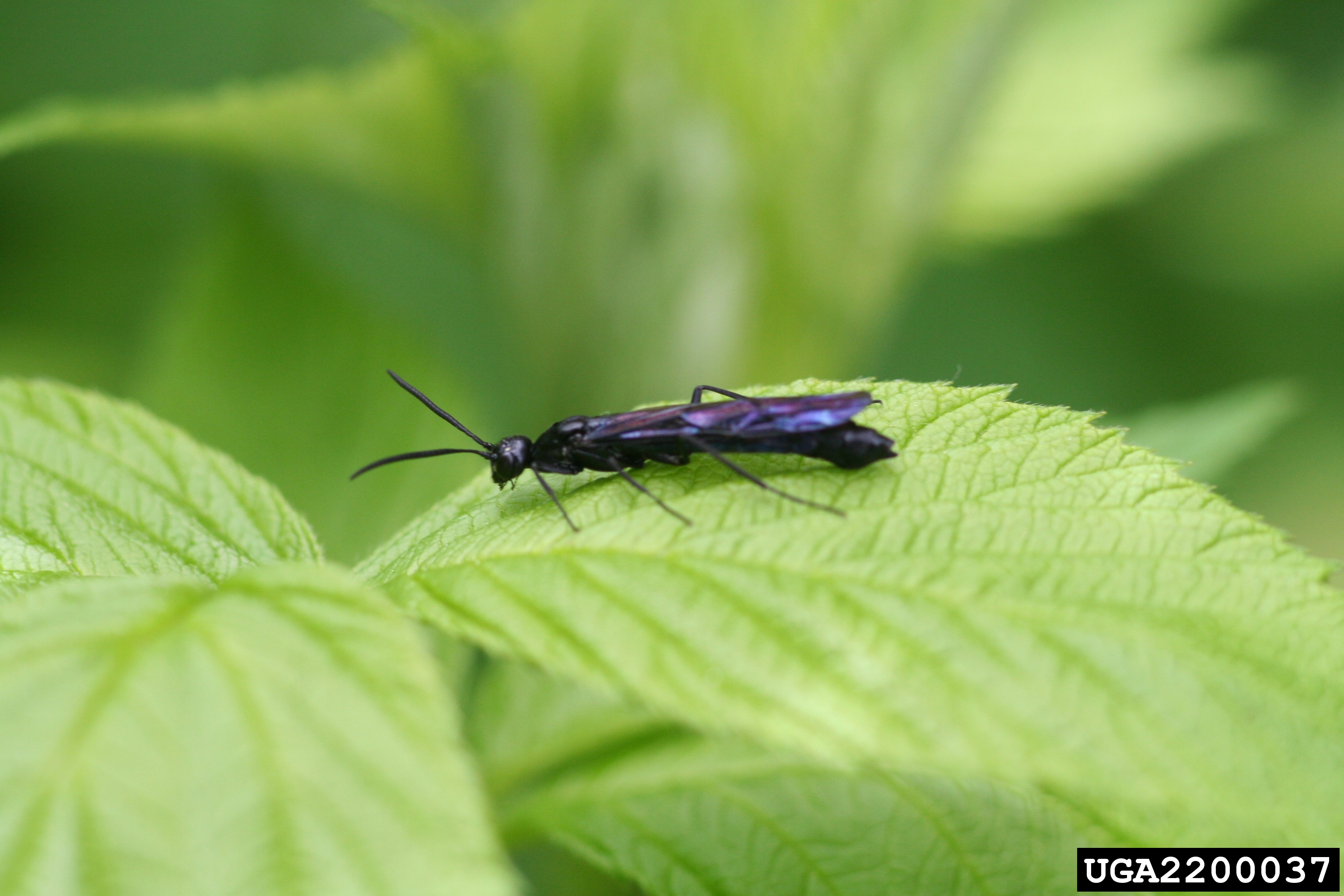 rose stem sawfly (Hartigia trimaculata (Say)) on his host, the European red raspberry (Rubus idaeus L.)